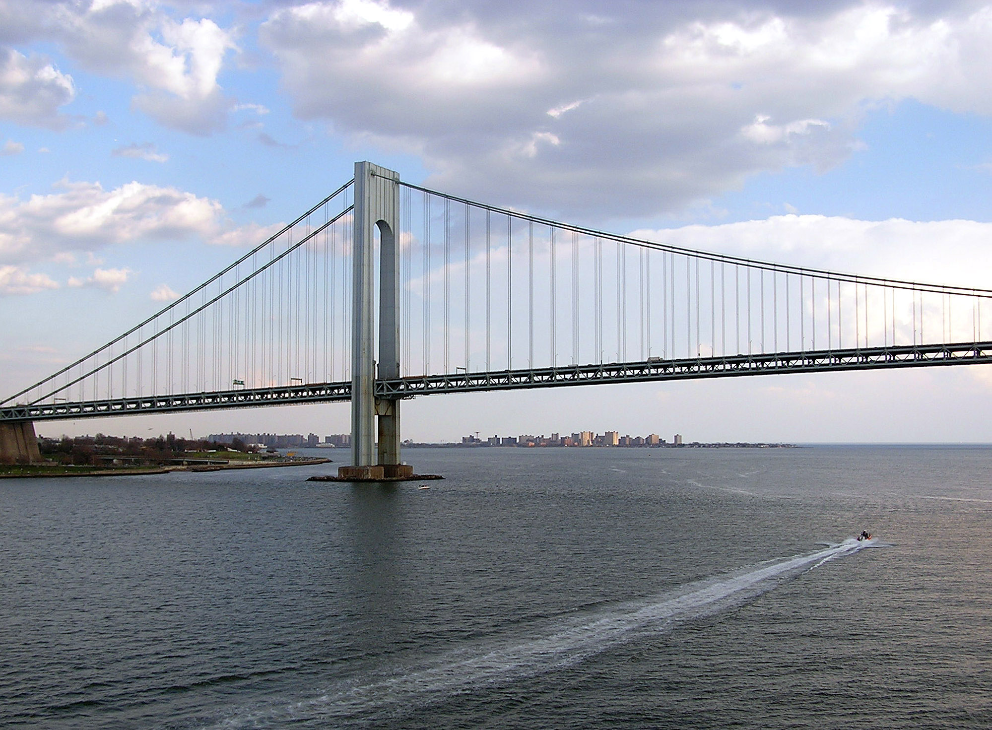 The Narrows